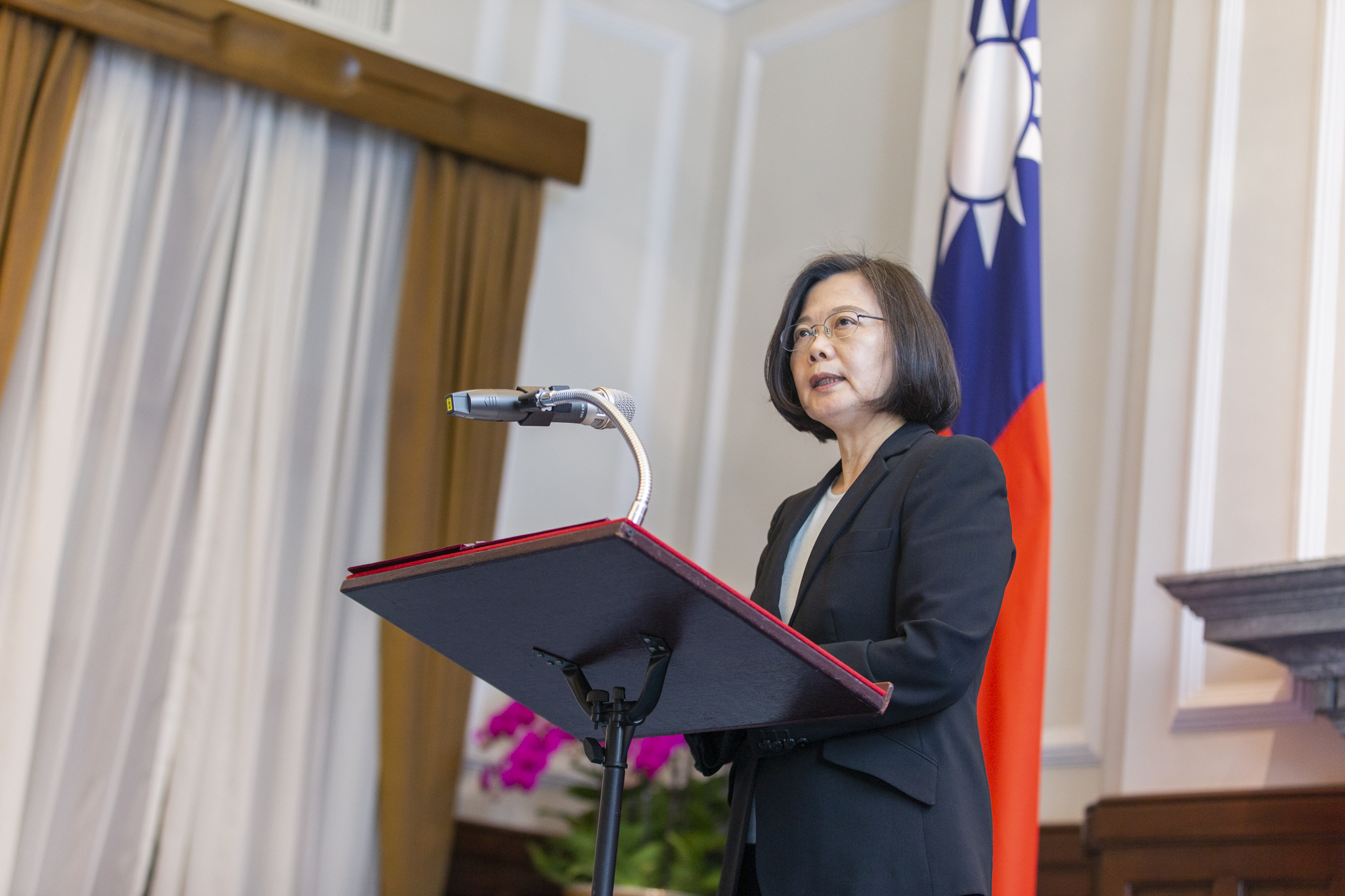 Official Photo by Mori / Office of the President